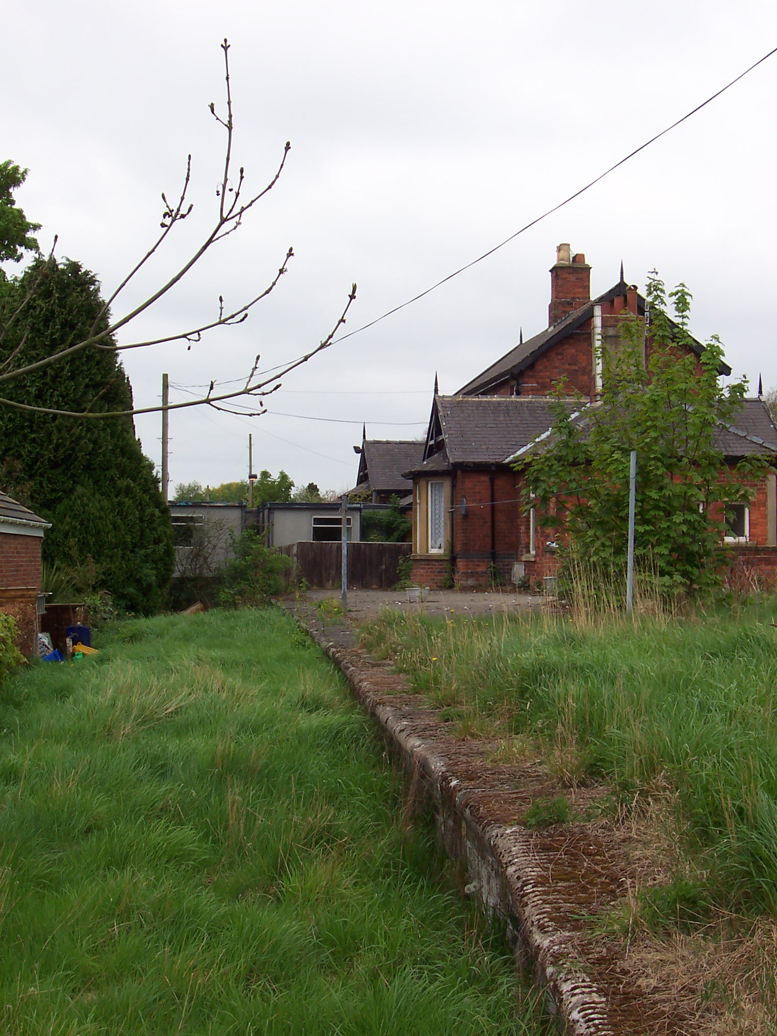 The former Forge Valley railway station.